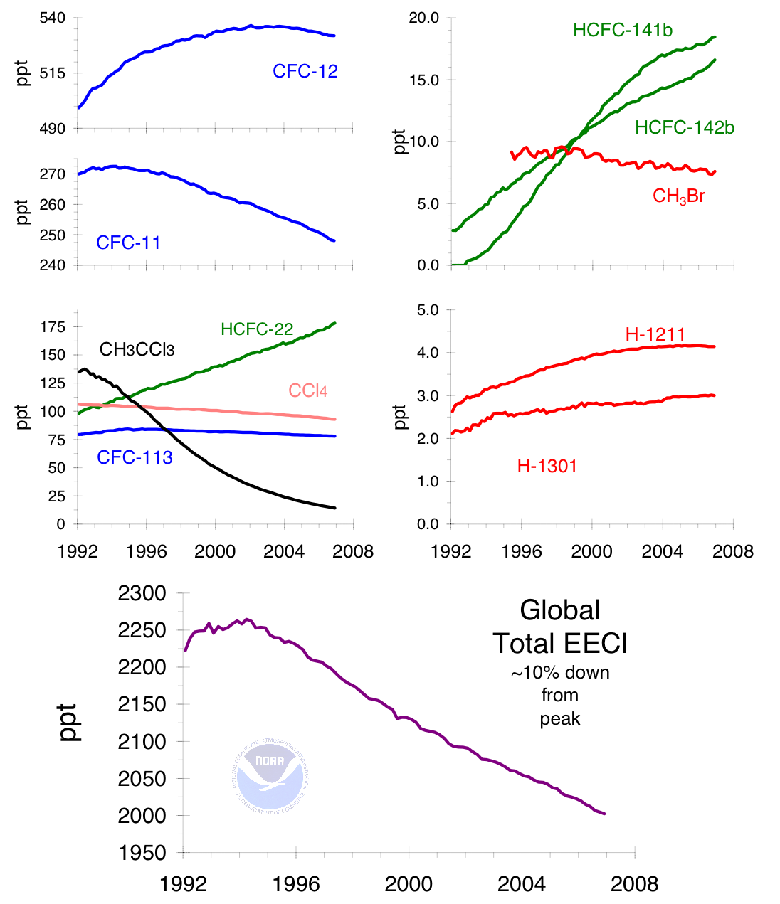 Ozone-depleting gas trends and equivalent chlorine effect. Combined chlorine and bromine in the lower atmosphere or troposphere from the most abundant chlorinated and brominated chemicals controlled by the Montreal Protocol. These changes are reflected in the upper atmosphere stratosphere (10-25 km), where most ozone loss occurs, with a delay (due to air transport) of 3-5 years. Bromine is included as an ozone-depleting chemical because although it is not as abundant as chlorine, it is 45 to 60 times more effective per atom in destroying stratospheric ozone. Earlier measurements showed that the peak of equivalent chlorine (chlorine + 45 (or 60) times bromine) occurred at the surface between mid-1992 and mid-1994.[1] The observed decrease is driven by a large and rapid decline in methyl chloroform and methyl bromide, gases that are regulated internationally by the Montreal Protocol. The initial decline in methyl bromide was larger than that expected from projections given in the WMO/UNEP 2002 Scientific Assessment to Ozone Depletion.[2][3]